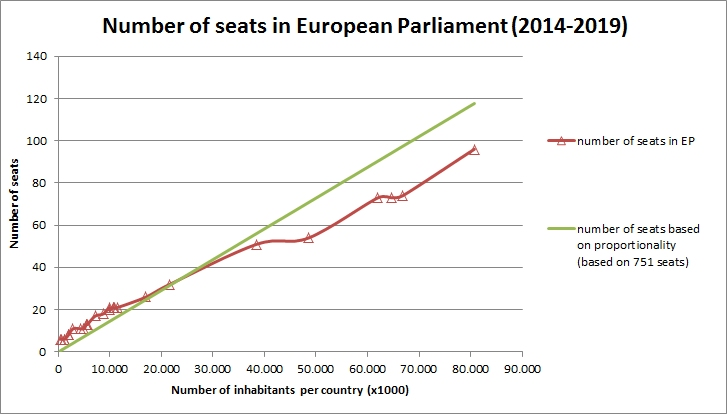 Number of seats in EP 2014-2019 versus number of inhabitants per country illustrating the concept of Degressive proportionality. Based on data of